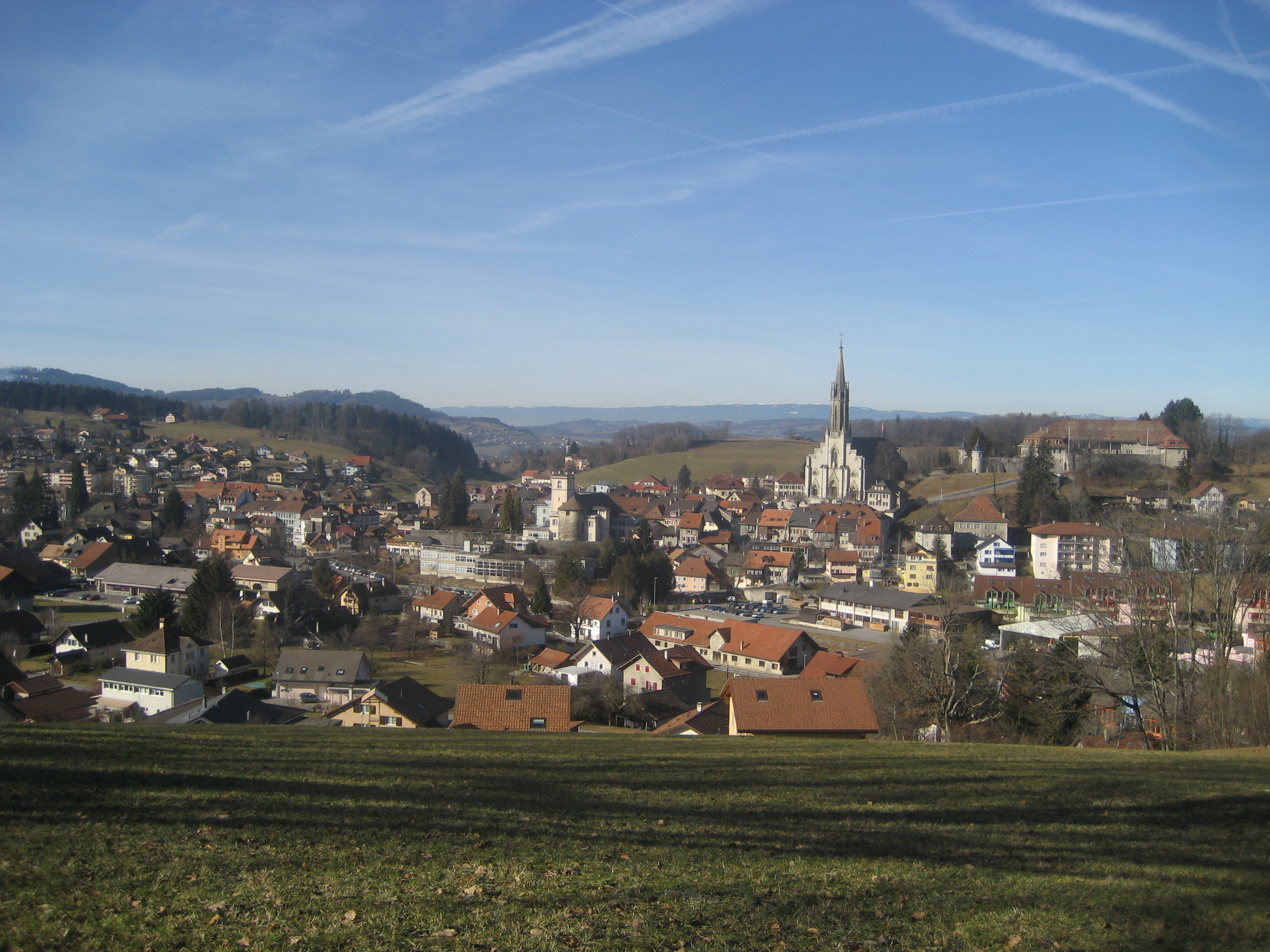 View of Chatel-St-Denis